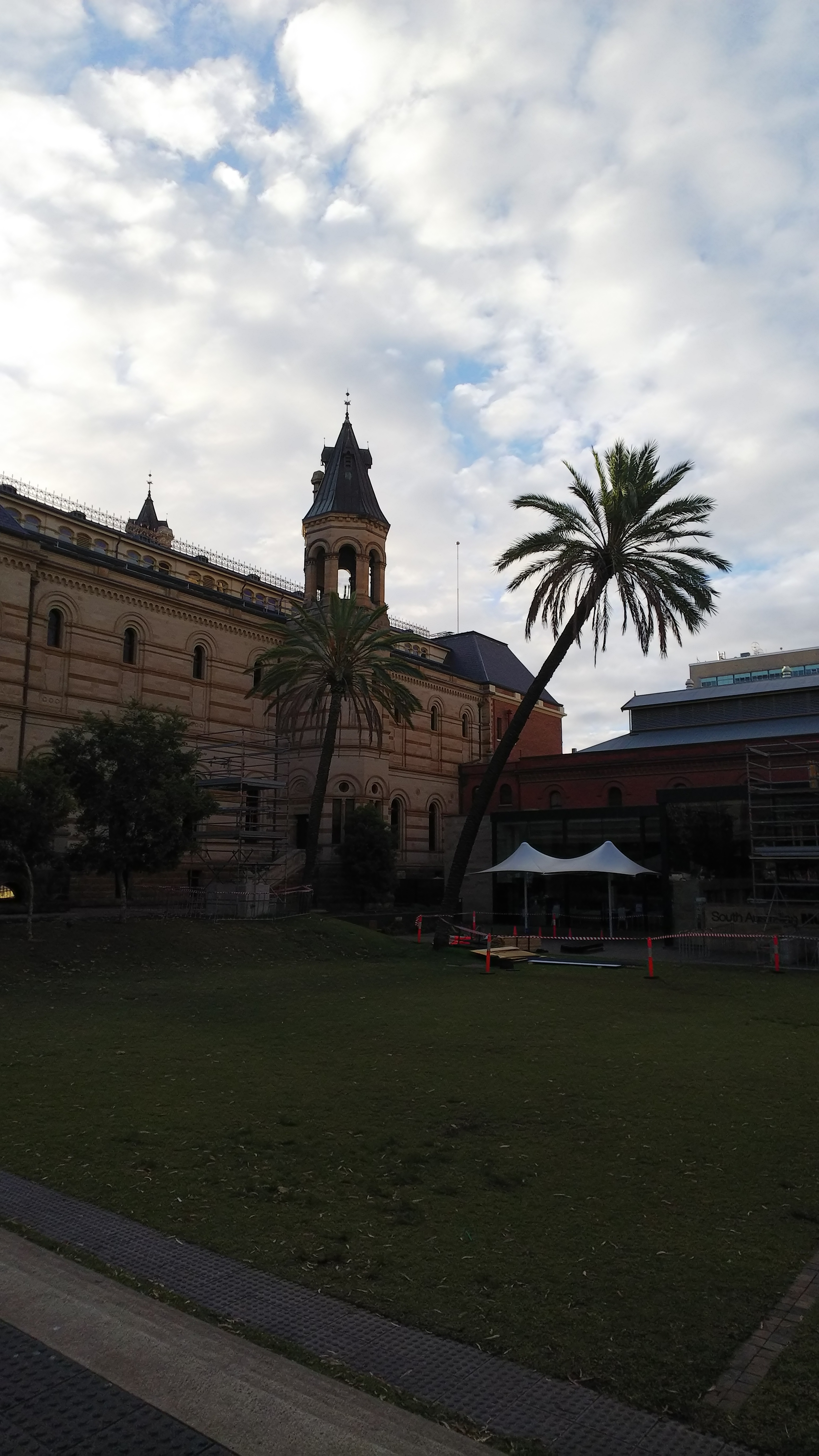 Palm trees in South Australian Museum